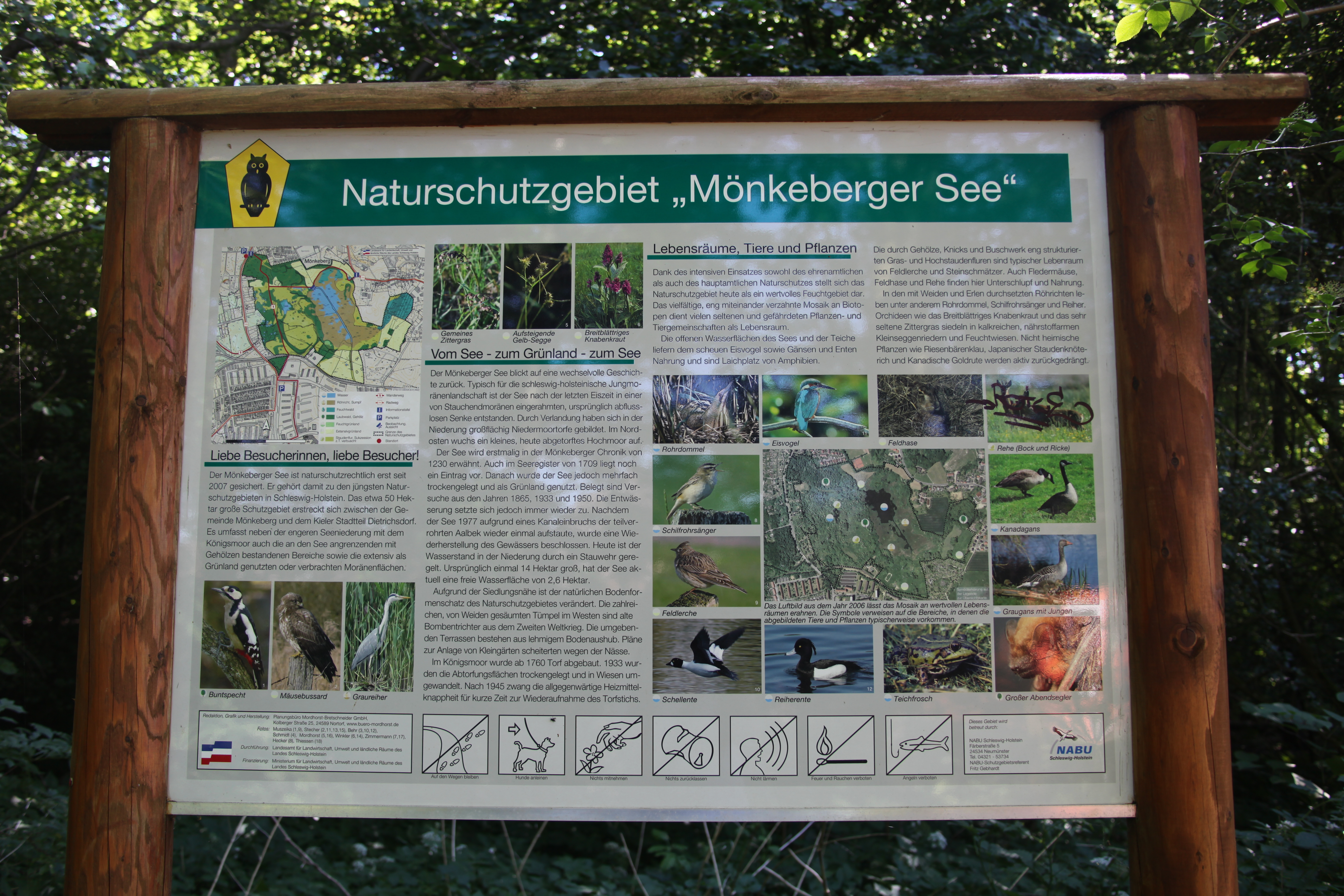 At the entrance of the nature reservation aeria I walked through,this board is fixed,describing the Naturschutzgebiet Moenkebergersee near Kiel, Schleswig-Holstein, Germany.